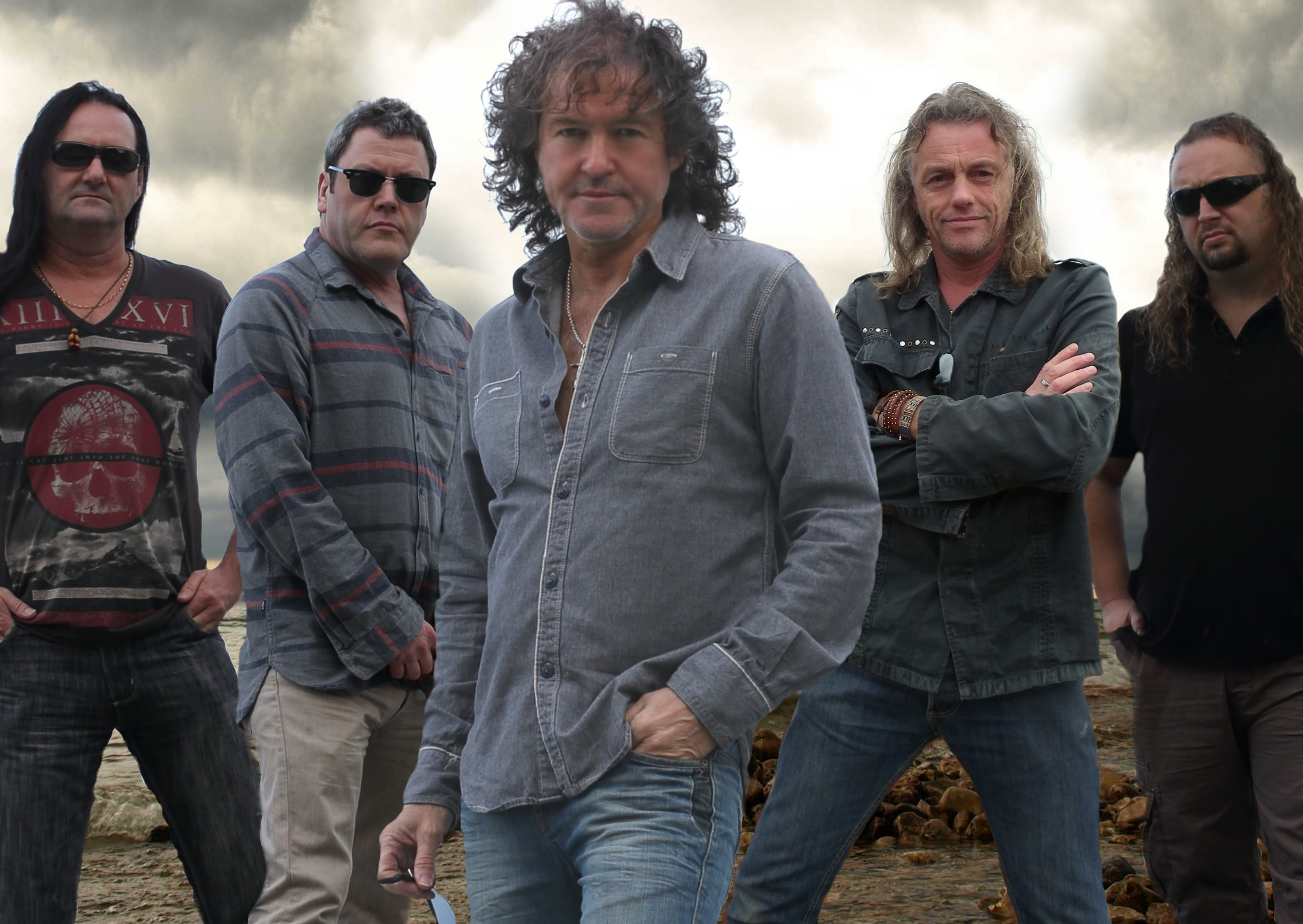 Dare band members 2020 Darren Wharton, Vinny Burns, Nigel Clutterbuck ,Kevin Whitehead and Marc Roberts.